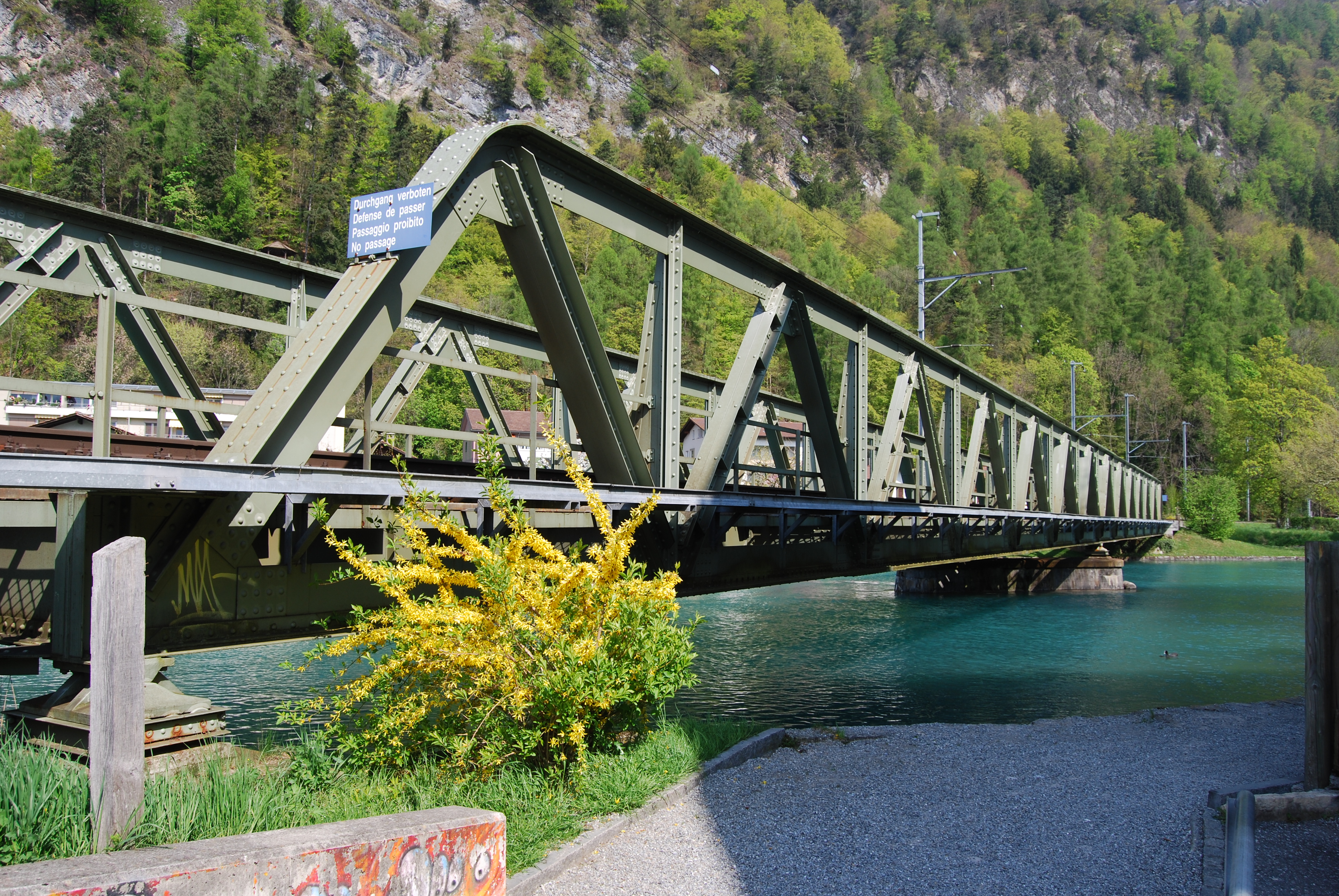 Railway bridge over the Aar between Interlaken and Unterseen, canton of Bern, Switzerland